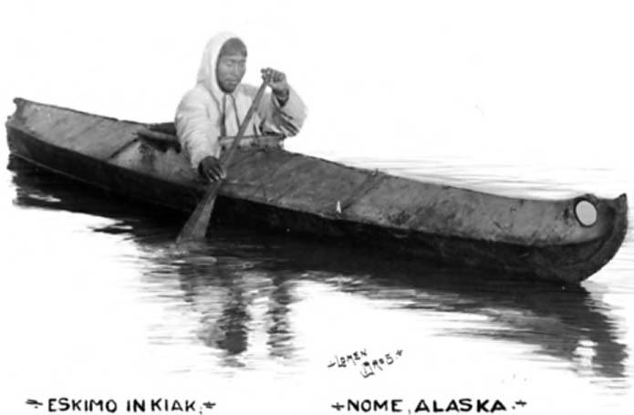 Caption on image: Eskimo in Kiak. - Nome, Alaska - Lomen Bros - PH Coll 413.Album 12.33a Subjects (LCTGM): Kayaks--Alaska--Nome Subjects (LCSH): Eskimos--Boats--Alaska--Nome;; Alaska Natives--Boats--Alaska--Nome